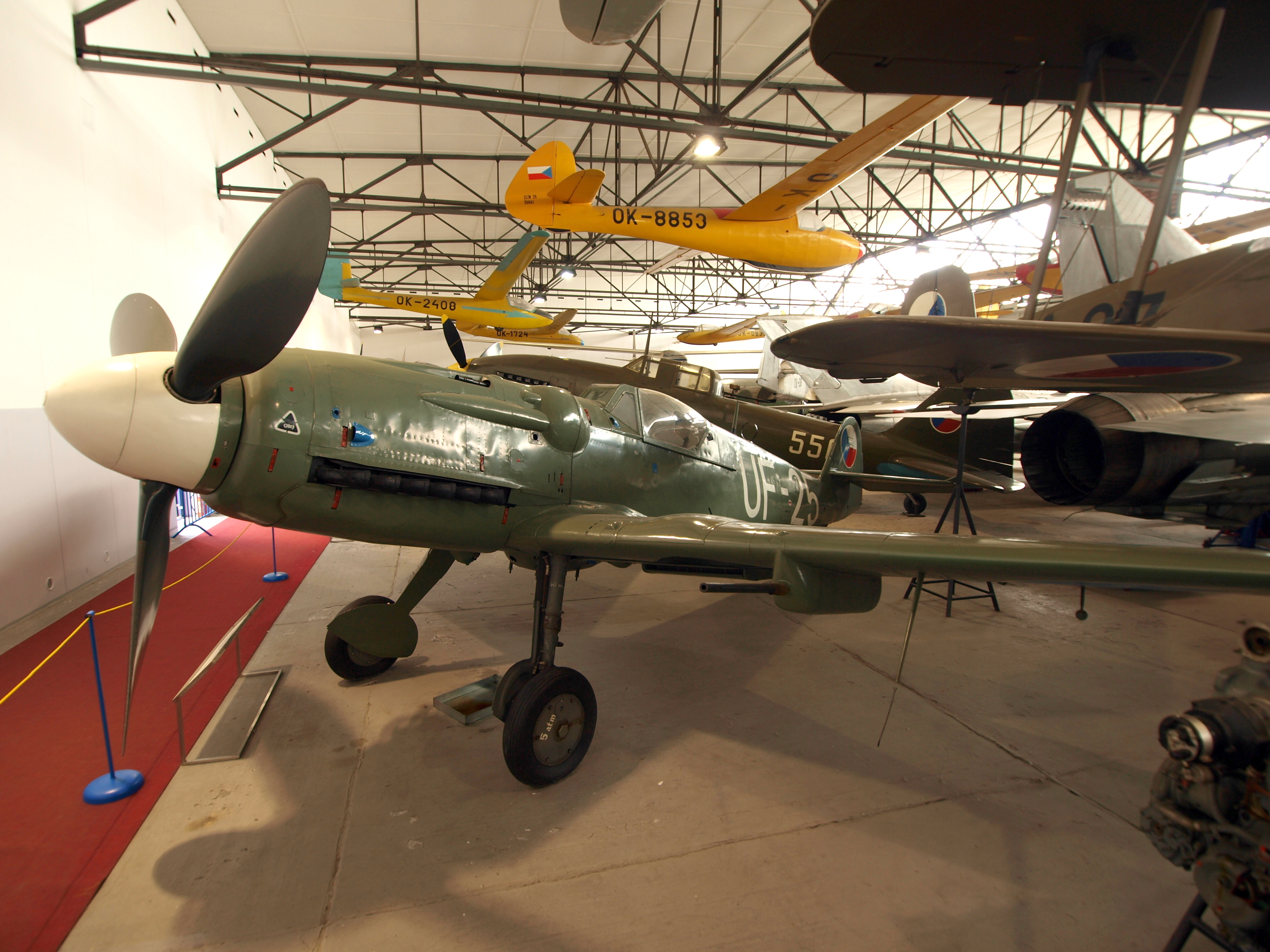 Avia S-199 (Czech version Messerschmitt Bf 109G/K) (UF 25). Photograph taken without a tripod (was not allowed!).